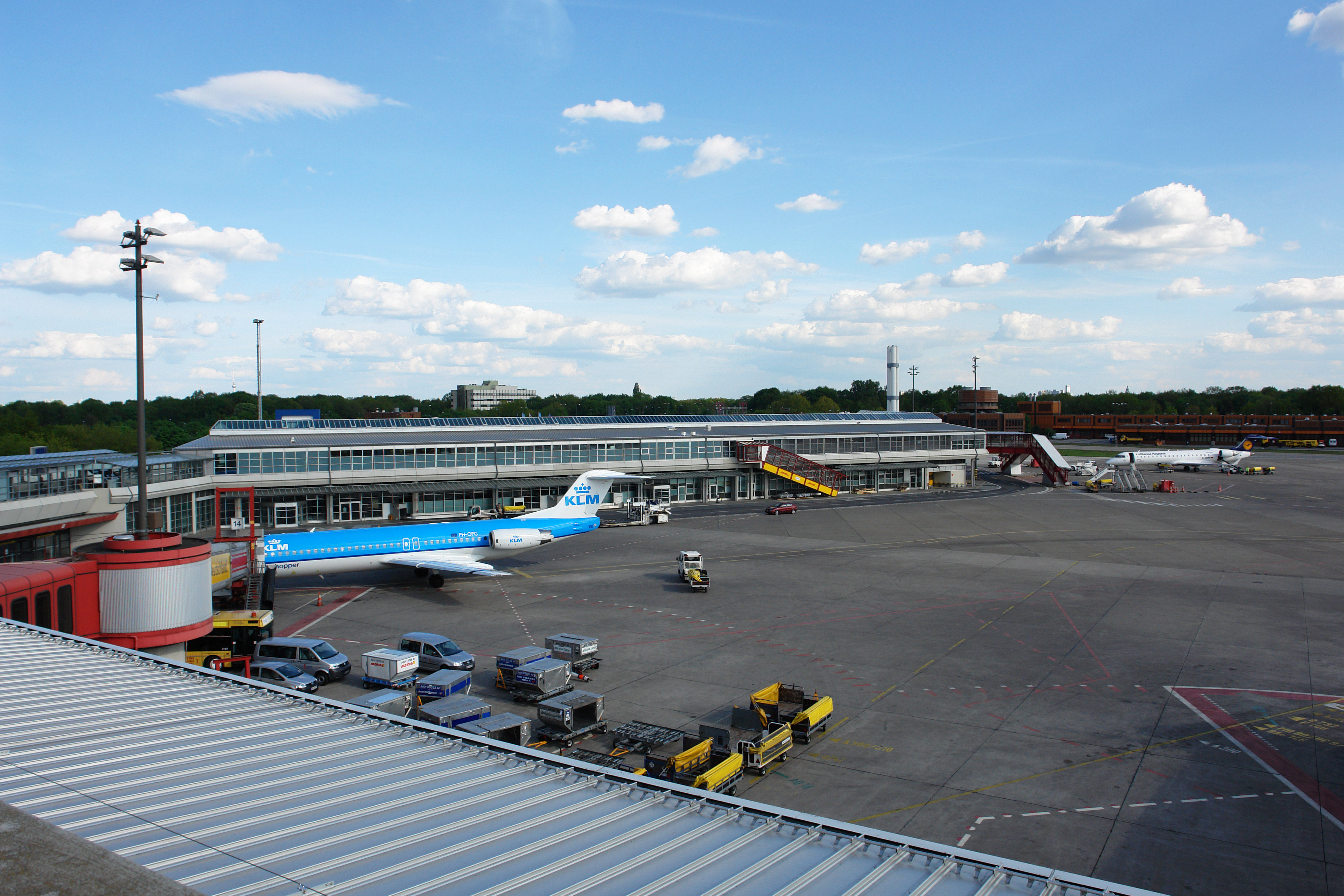 Berlin, Tegel Airport (TXL/EDDT). View from the visitors terrace towards Terminal D. The gates 13 and 14 in the foreground are designed to be combined to handle large airliners like the Boeing 747. For this purpose, the jetway number 14 can be swung around to dock with the opposite side of an aircraft already docked at gate 13.